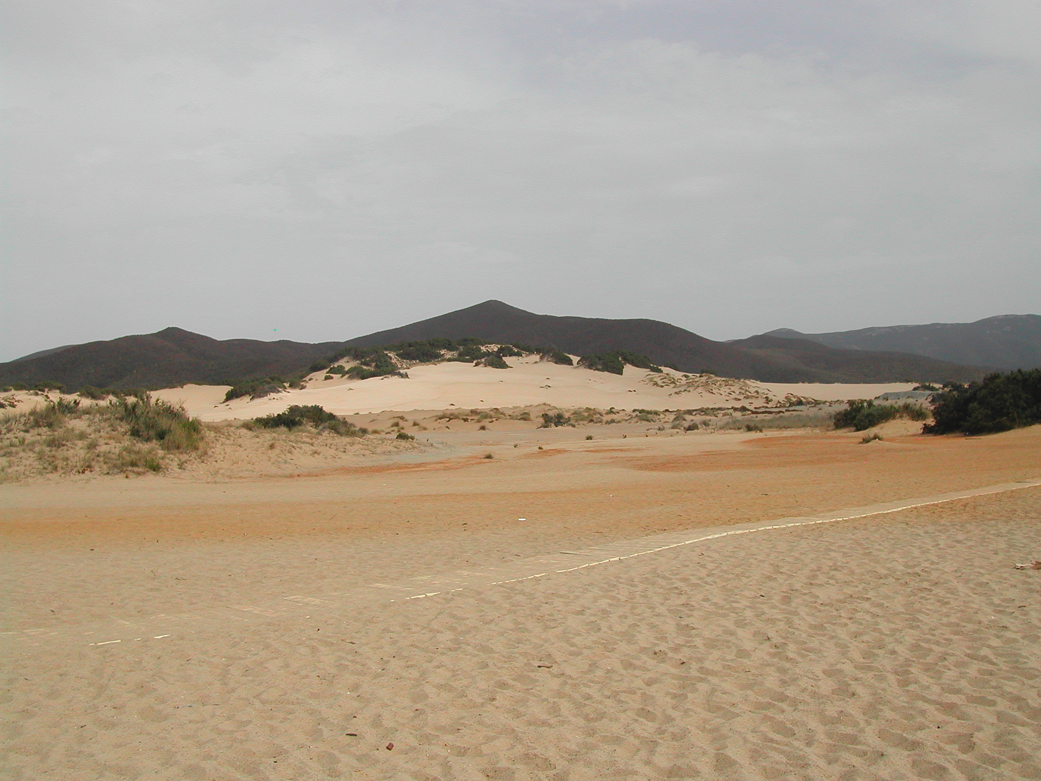 Dunes and sand-landscape at Costa Verde